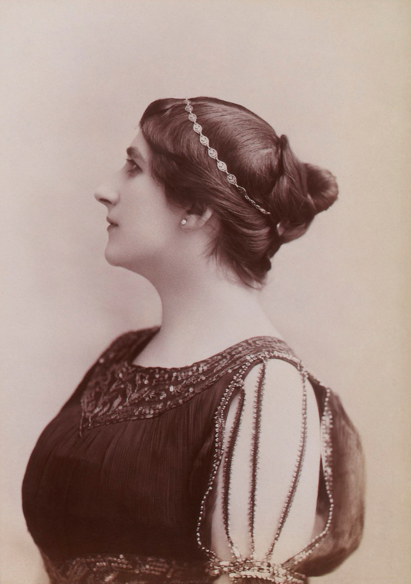 Marie-Aimée Roger-Miclos from the Album Reutlinger de portraits divers, vol. 21